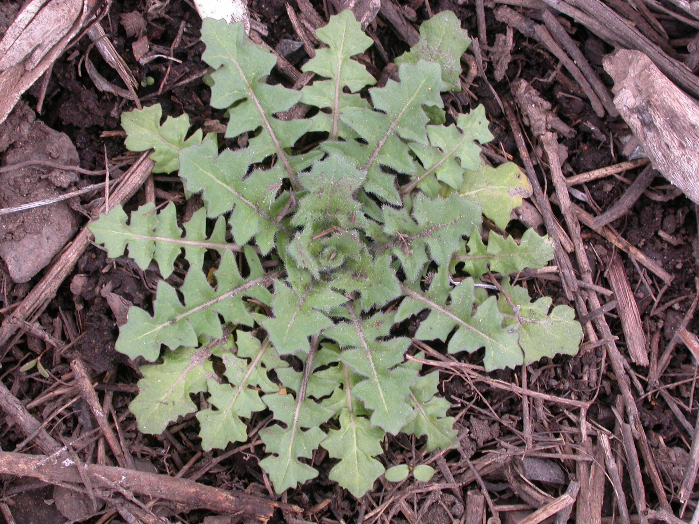 The leaf rosette forms the first year and may send up a flowering stalk the following year if not in the current year.